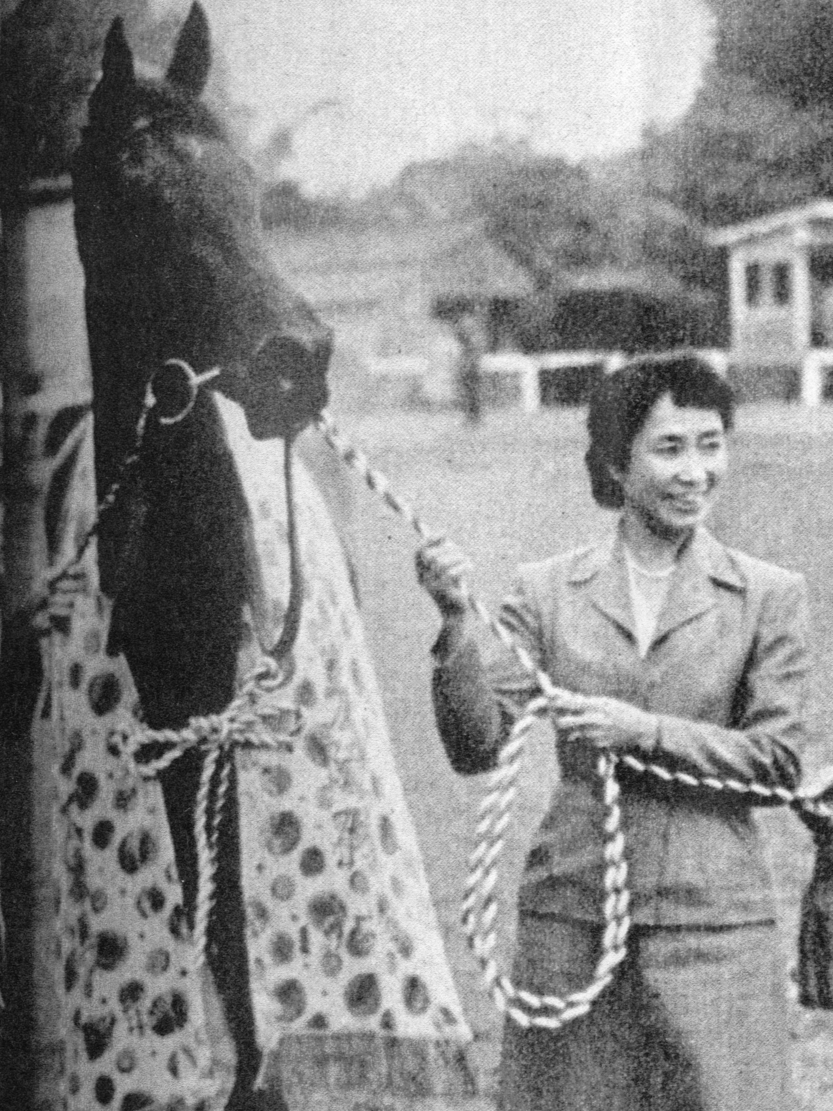 Yamakabuto(horse)